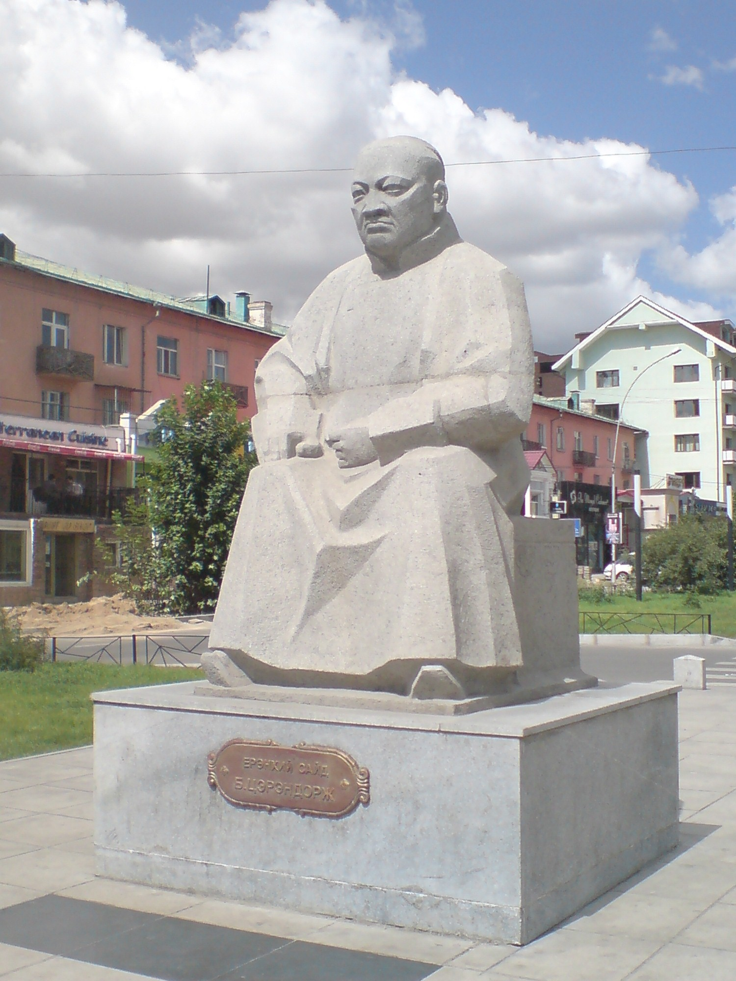 The monument is dedicated to the Mongolian Prime Minister Balingiin Tserendorj, which is located on a street named after him, Prime Minister Street (Хичээнгүй сайд Цэрэндоржийн гудамж). The monument was designed by the State Merited Architect Bandiin Dambiinyam (Бандийн Дамбийням).